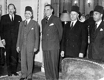 First day of the 1952 Anglo-Egyptian negotiations, aimed at resolving the issue of the evacuation of British troops from the Suez Canal zone, as well as the status of Sudan, which was being administered at the time under a joint Anglo-Egyptian condominium. From left to right: Sir Michael Justin Creswell, British minister to Cairo (1951–1954); Ahmad Najib al-Hilali Pasha, Prime Minister of Egypt (1 March – 2 July 1952); Sir Ralph Stevenson, British Ambassador to Egypt (1950–1955); Abdel Khalek Hassouna Pasha, Foreign Minister of Egypt (2 March – 24 July 1952); Abdelfattah Amr Pasha, Egyptian Ambassador to the United Kingdom (1945–1952).